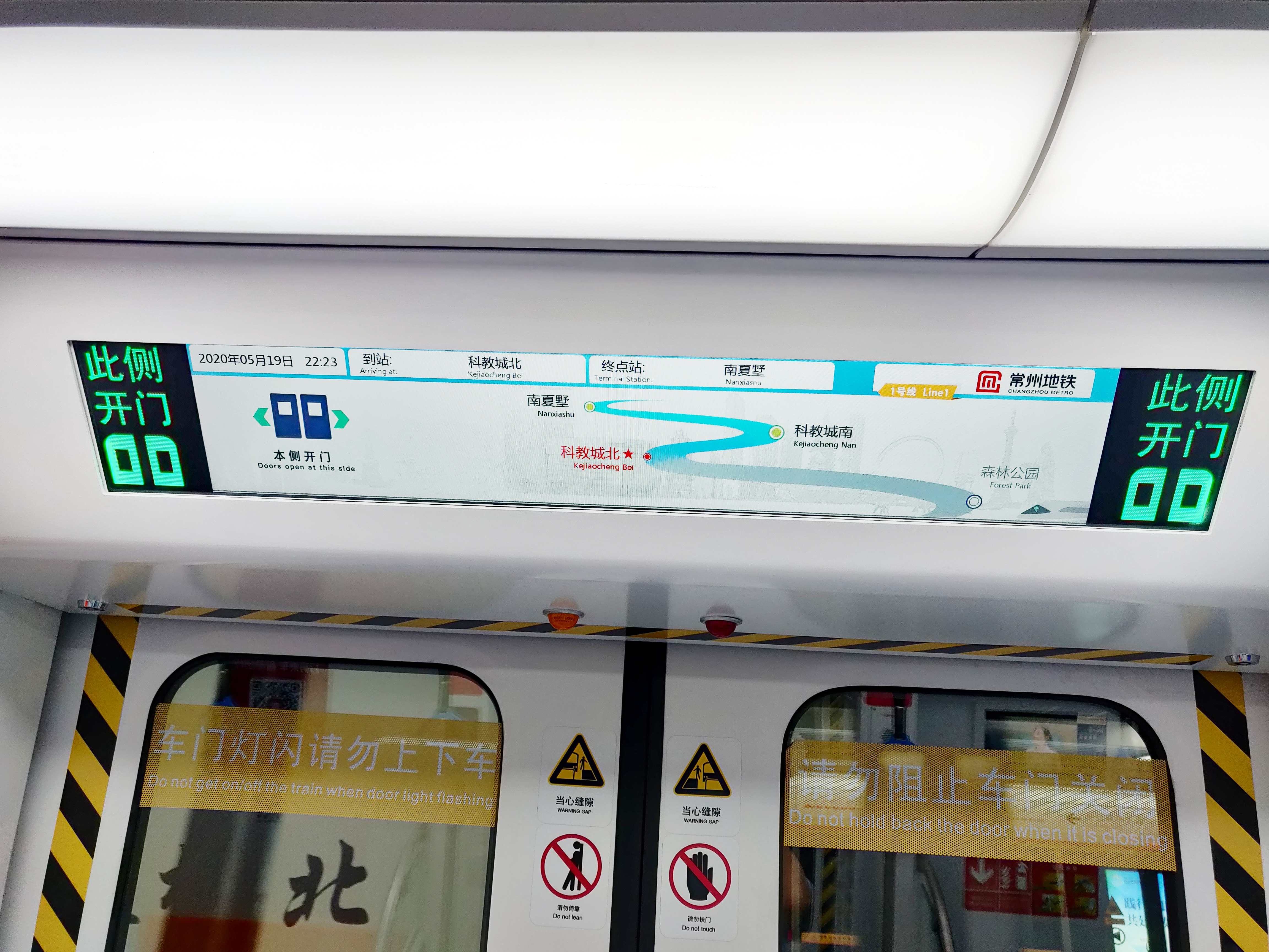 Adjacent Stop and Terminal curved line UI